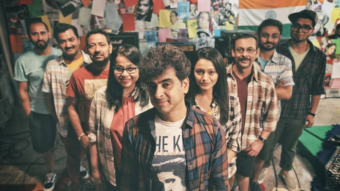 Euphoria band shot, from the shoot of their video 'Alvida'